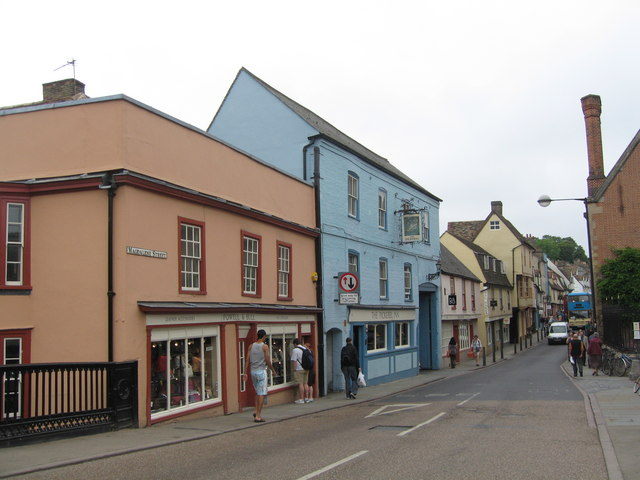 Magdalene Street, Cambridge Varied architecture on this street. Taken from the bridge over the Cam.